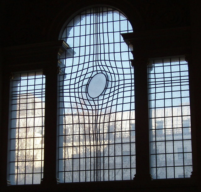 New East window of St Martin's in the Fields This new window was installed in 2008 as part of the renewal project . It is by the Iranian-born artist Shirazeh Houshiary. It depicts a cross as if seen reflected in water. The church's press release tells us: "The ‘warp and weft’ design of the shot peened stainless steel framework or ‘cames’ evokes the agony of the Cross, whilst the central ellipse creates an icon of contemplation. It can be seen as the light at the centre of existence, the glory of God and of the light with which He illuminates our lives; or it can be seen as universal, transcending cultures. The ellipse echoes the architectural and decorative elements within the church such as the burst of gold declaring the glory of God in the sanctuary and the oval windows on either side." "The glass, held within the stainless steel framework, is made of mouth blown clear glass panels etched on both sides with a subtle, feathery pattern, derived from Houshiary's paintings. The panels graduate from a periphery of more transparent glass to a denser, whiter centre. The ellipse itself is lightly etched, and lit in such a way as to stand out as a source of light. " The photo was taken from the 2nd row of pews before the start of a Salvation Army carol service.